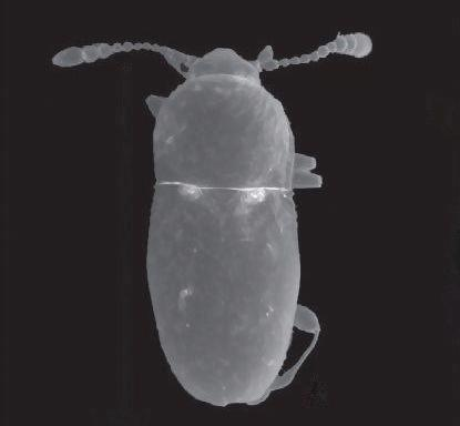 ZooKeys - Cephennium anopthtalmicum Cut-out from original (Cephennium spp.jpg) shown below